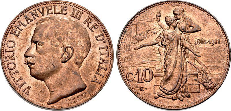 Italy, Regno d'Italia. Vittorio Emanuele III. 1900-1946. CU 10 Centesimi (30mm, 10.01 g, 12h). Commemorating the 50th Anniversary of the Kingdom. Rome mint. Dually-dated 1861-1911. VITTORIO EMANVELE III RE D’ITALIA, bare head left; D. TRENTACOSTE/L. GIORGI INC. in two lines below head goddess Roma standing left behind Italia standing right; in background to left, ship under sail right on sea.